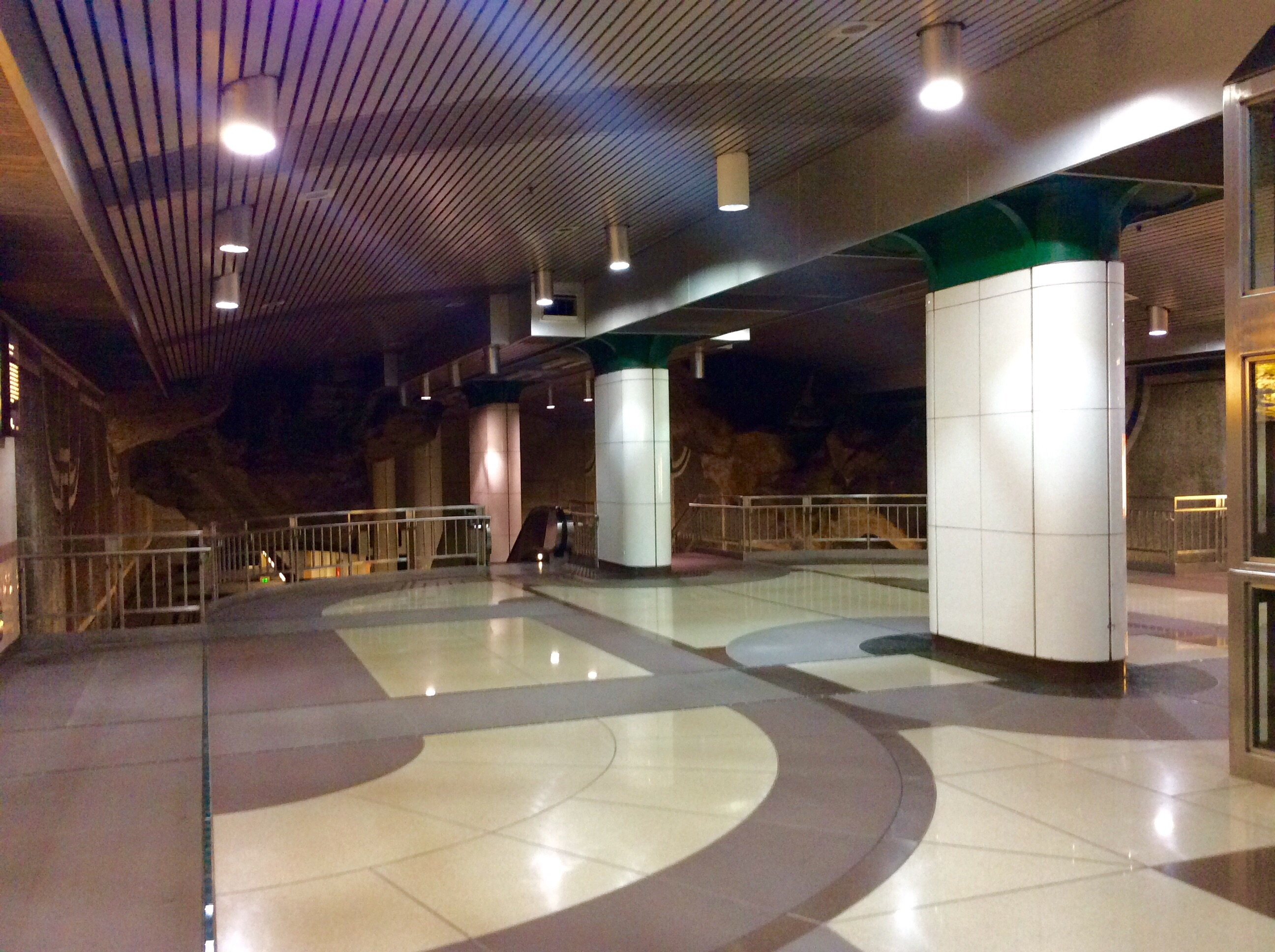 The upper floor view of Vermont/Beverly Station.